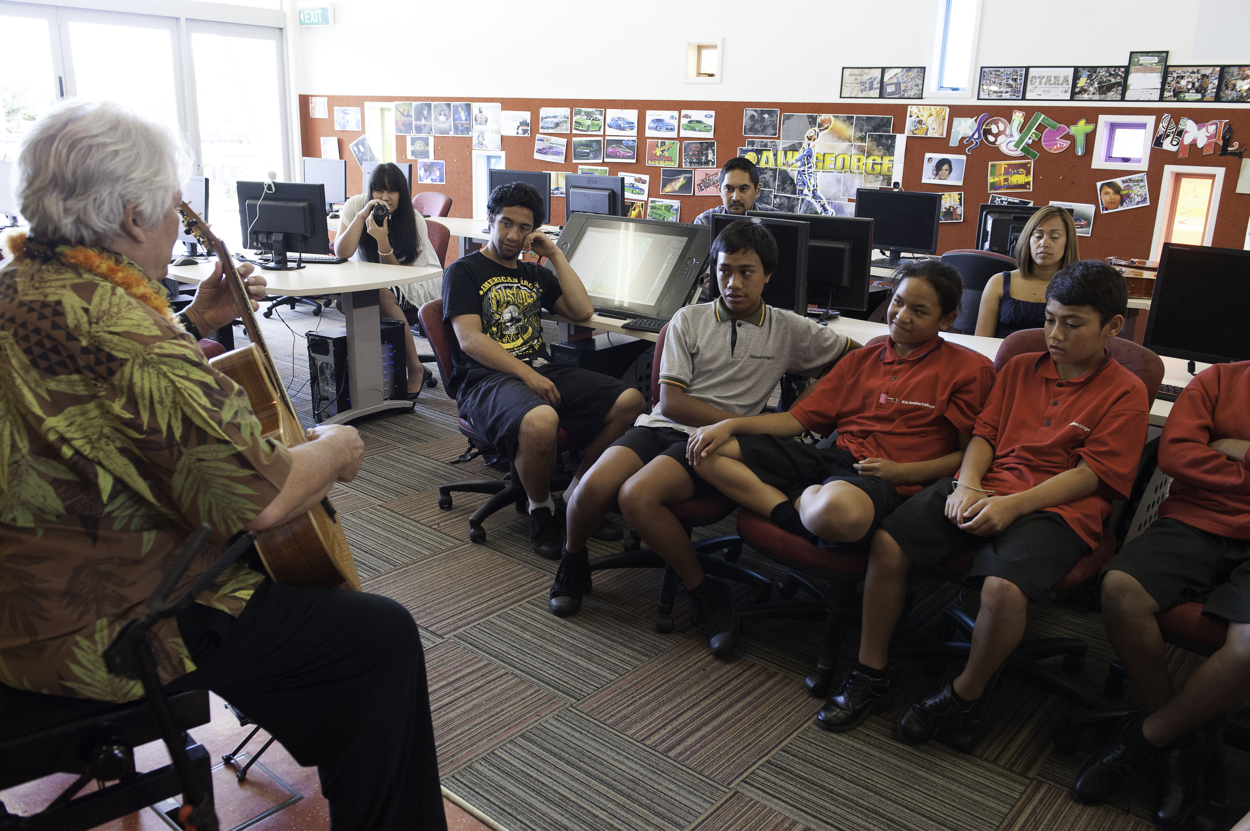 Keola and Moana Beamer - Visit to the High Tech Youth Network